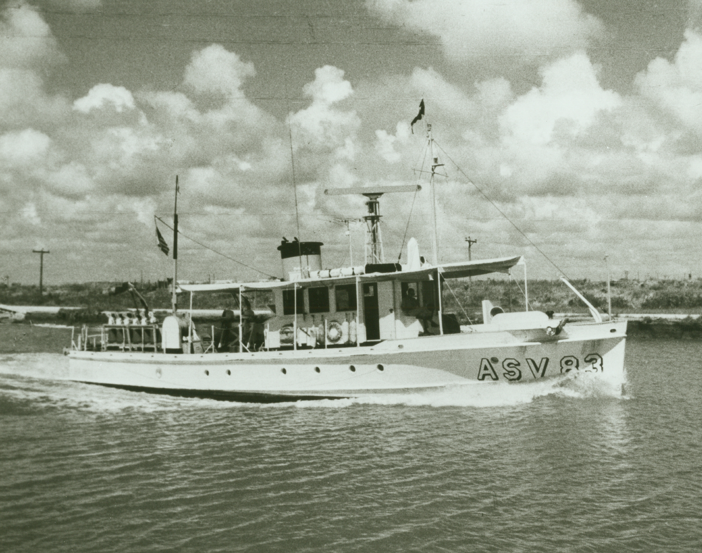 The United States Coast and Geodetic Survey auxiliary survey vessel USC&GS Wainwright (ASV 83). She is painted in the colors of the Environmental Science Services Administration, which was the U.S Coast and Geodetic Surveys parent organization from 1965 until 1970.